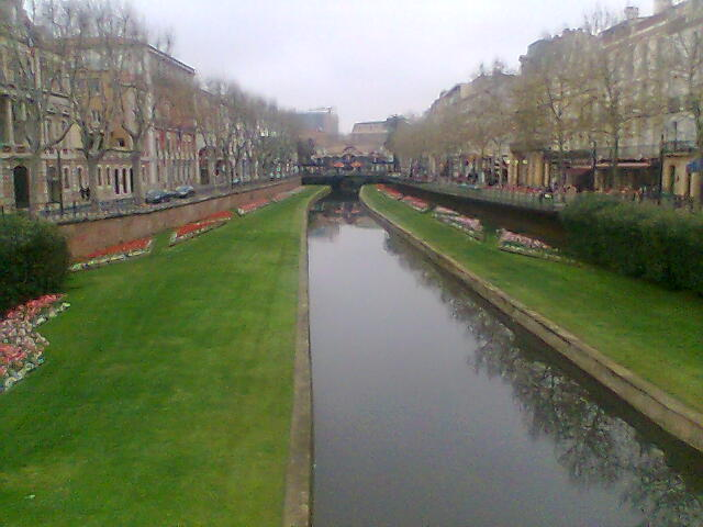 This picture is the Perpignan's canal,called "la basse"